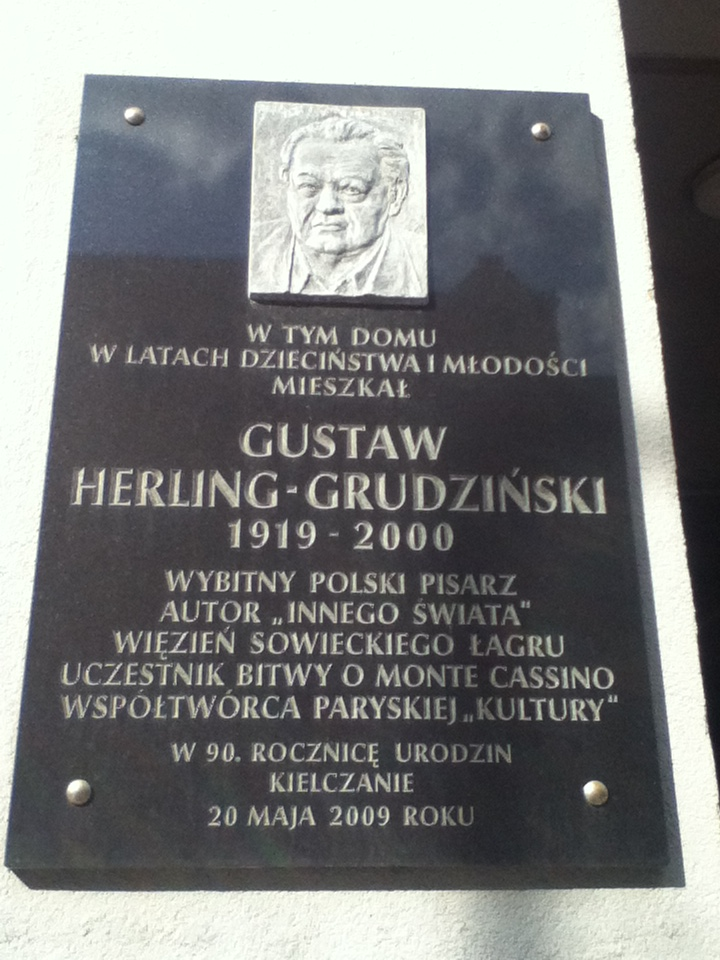 Gustav Herling-Grudzinski childhood home